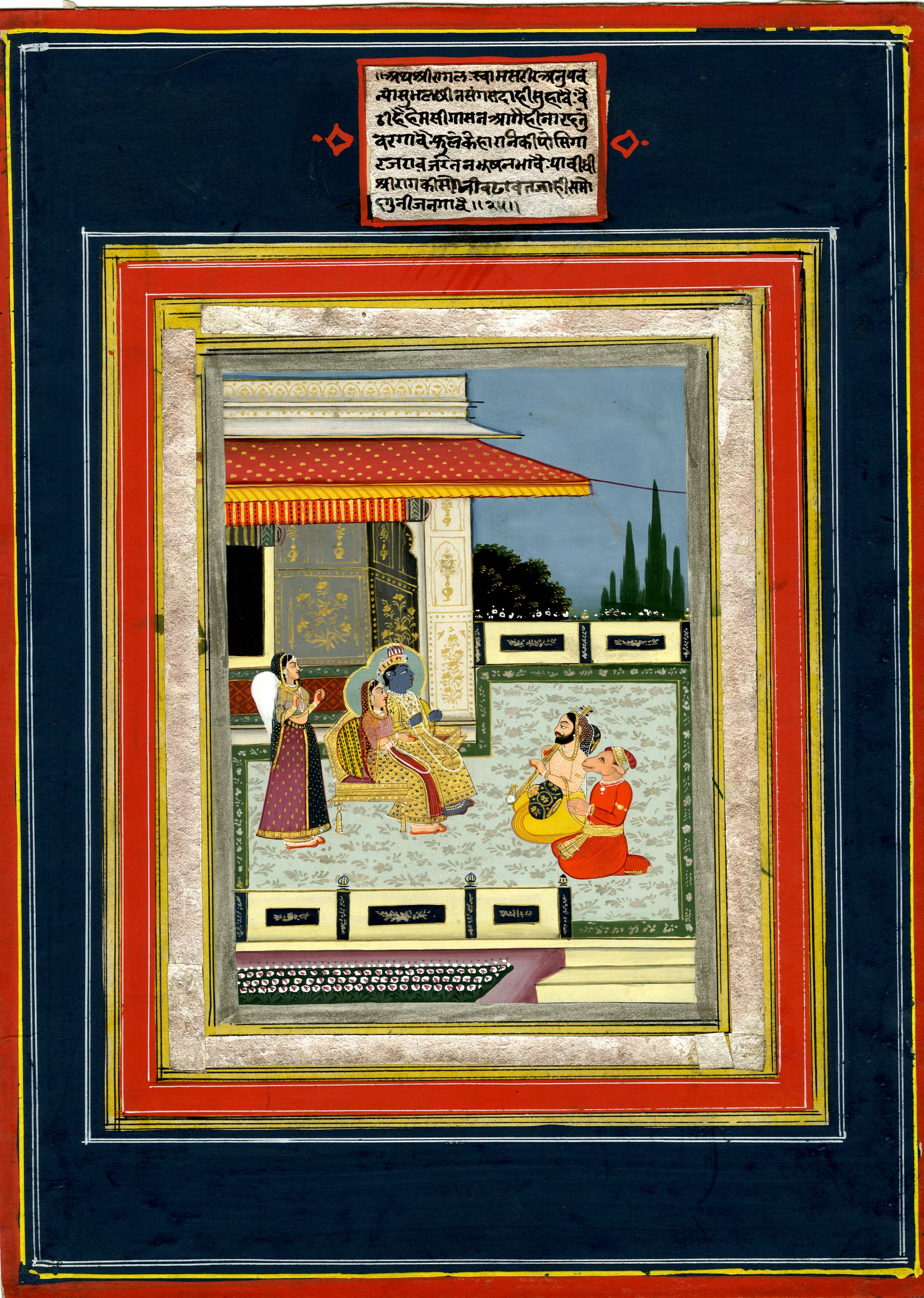 Shri_Raga._Rajasthan,_1790-1810_British_Museum.